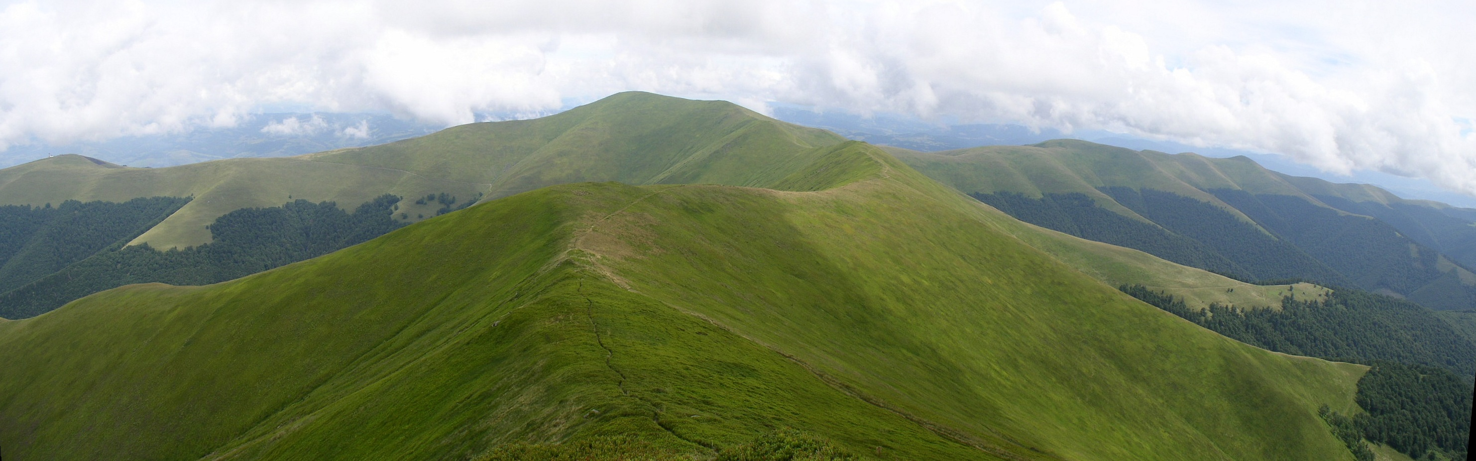 Polonina Borzha range. Carpathian Mountains, Ukraine.